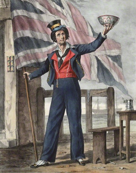 Thomas Potter Cooke (1786–1864), English actor, in the part of Jack Sykes, from Nelson by Edward Fitzball. Hand-colored lithograph by Nathaniel Whittock, after Thomas Charles Wageman